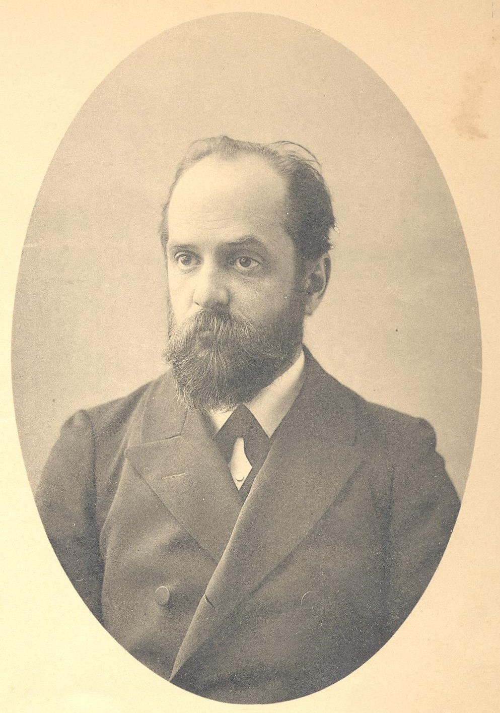 Anatoly Mikhailovich Bochvar (1870-1947), Soviet metallurgist, founder of the Moscow school of metallurgy, honored worker of science and technology of the RSFSR.